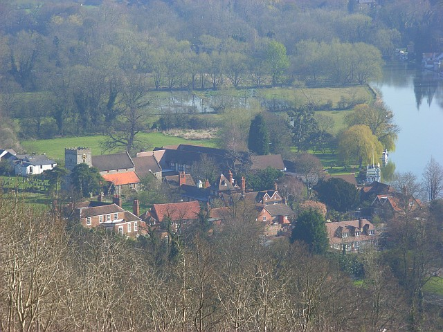 Streatley A view of St Mary's church and the Thames at the eastern side of the village. The church's tower is 15th century whilst the rest was rebuilt in 1865.